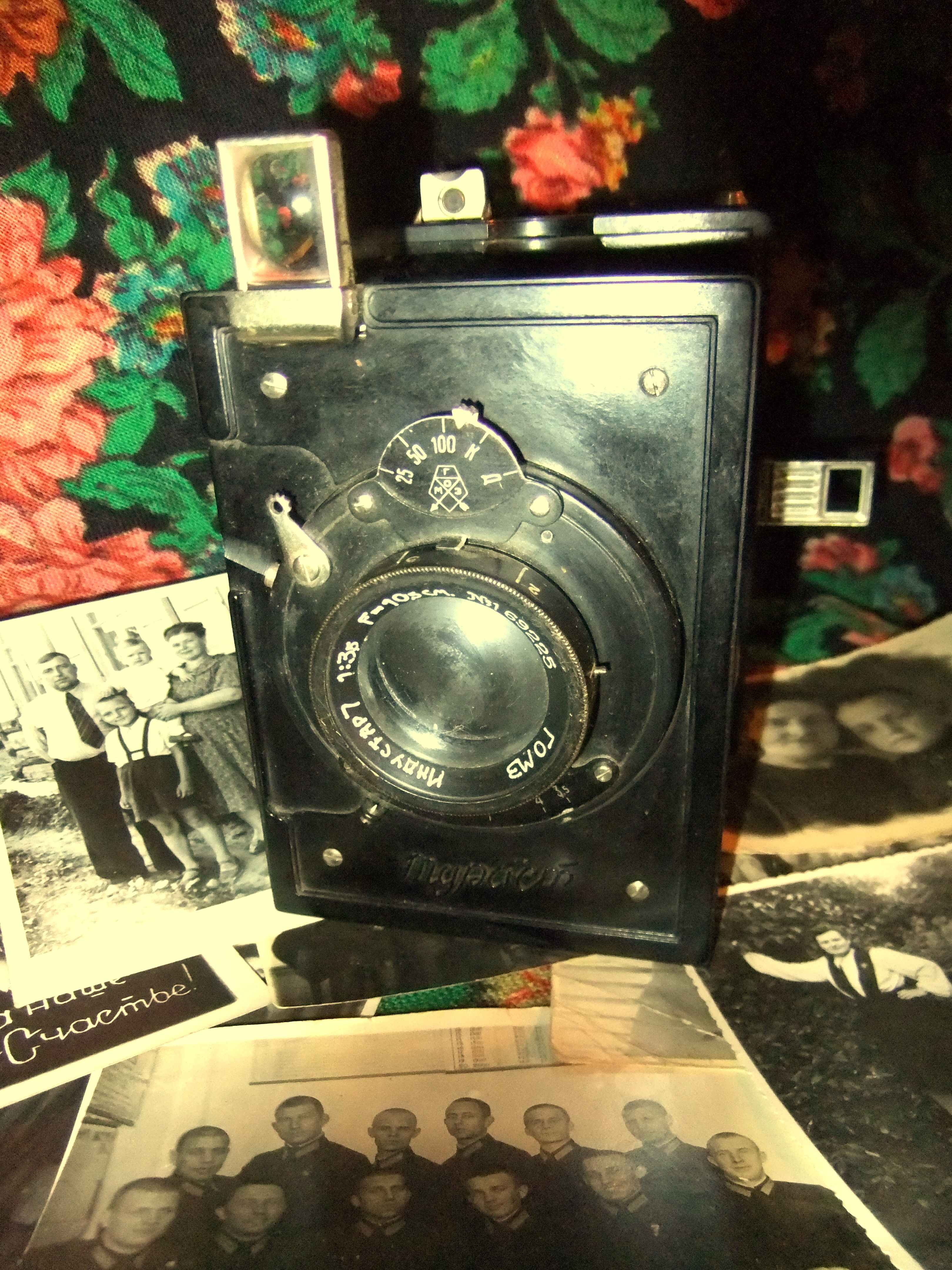 Фотокамера Турист